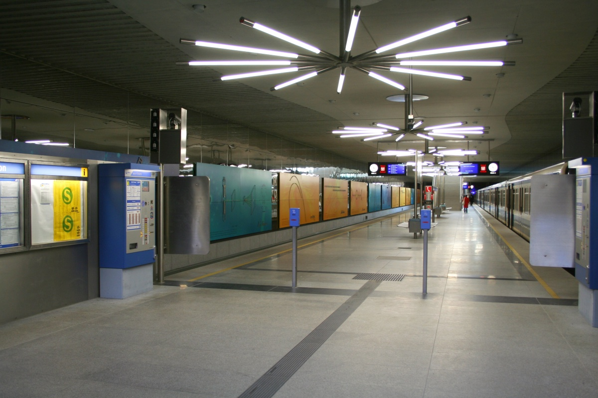 Munich subway station Garching-Forschungszentrum